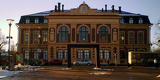 Joensuu Museum of Art